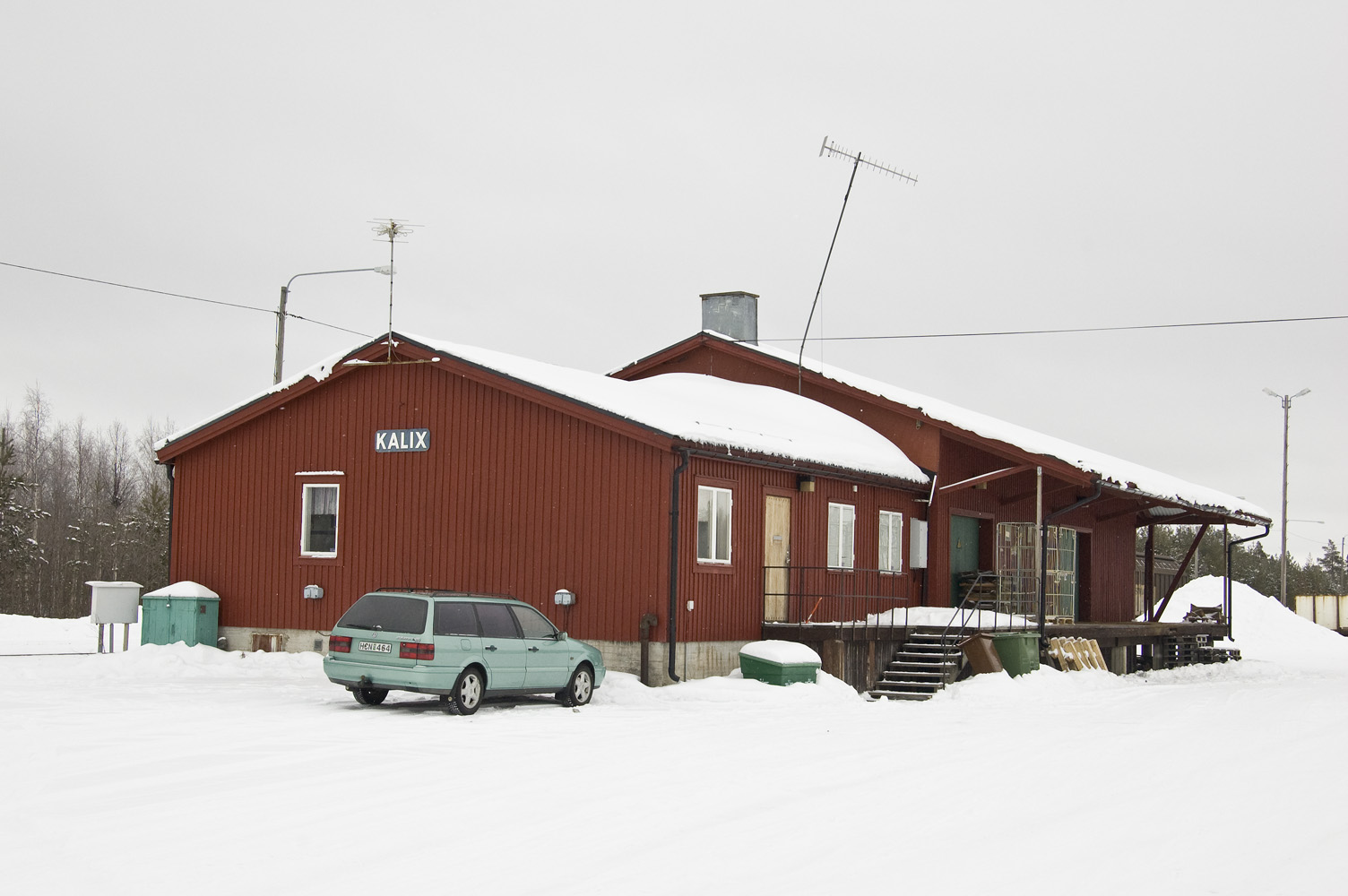 Kalix railway station, Kalix kommun, Sweden.